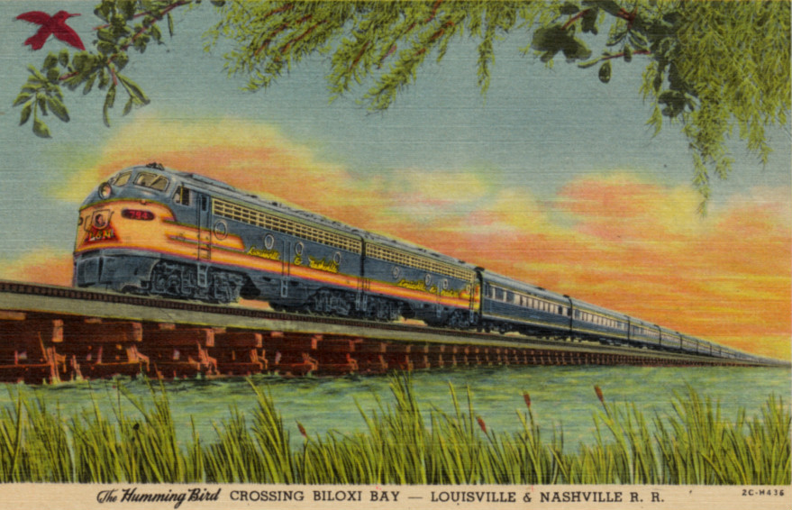 Postcard depiction of the Louisville and Nashville Railroad train "The Humming Bird" which traveled from Cincinnati, Ohio to New Orleans. Connections to Chicago and St. Louis were made through other railroads.